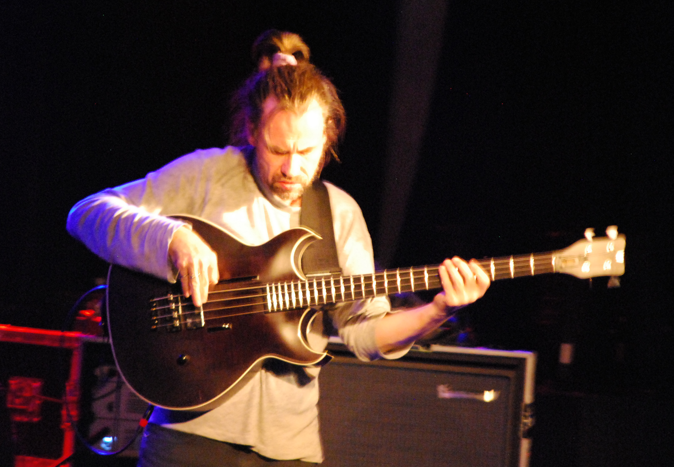 Jonas Hellborg, Treibhaus Innsbruck 2011 (Jonas Hellborg (b) Ginger Baker (dr) Regi Wooten (g) Dodoo Abass (perc) )